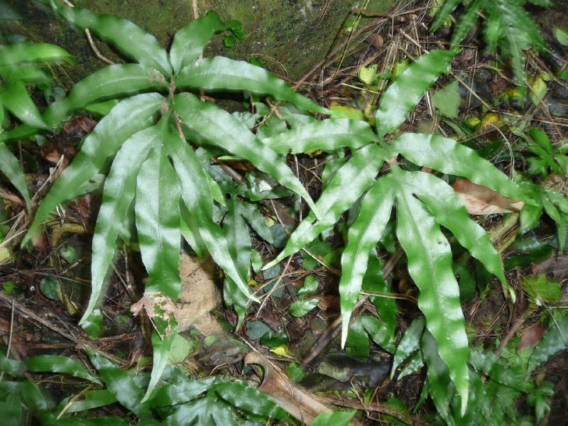 A fern Colysis elliptica (possibly in Taiwan)